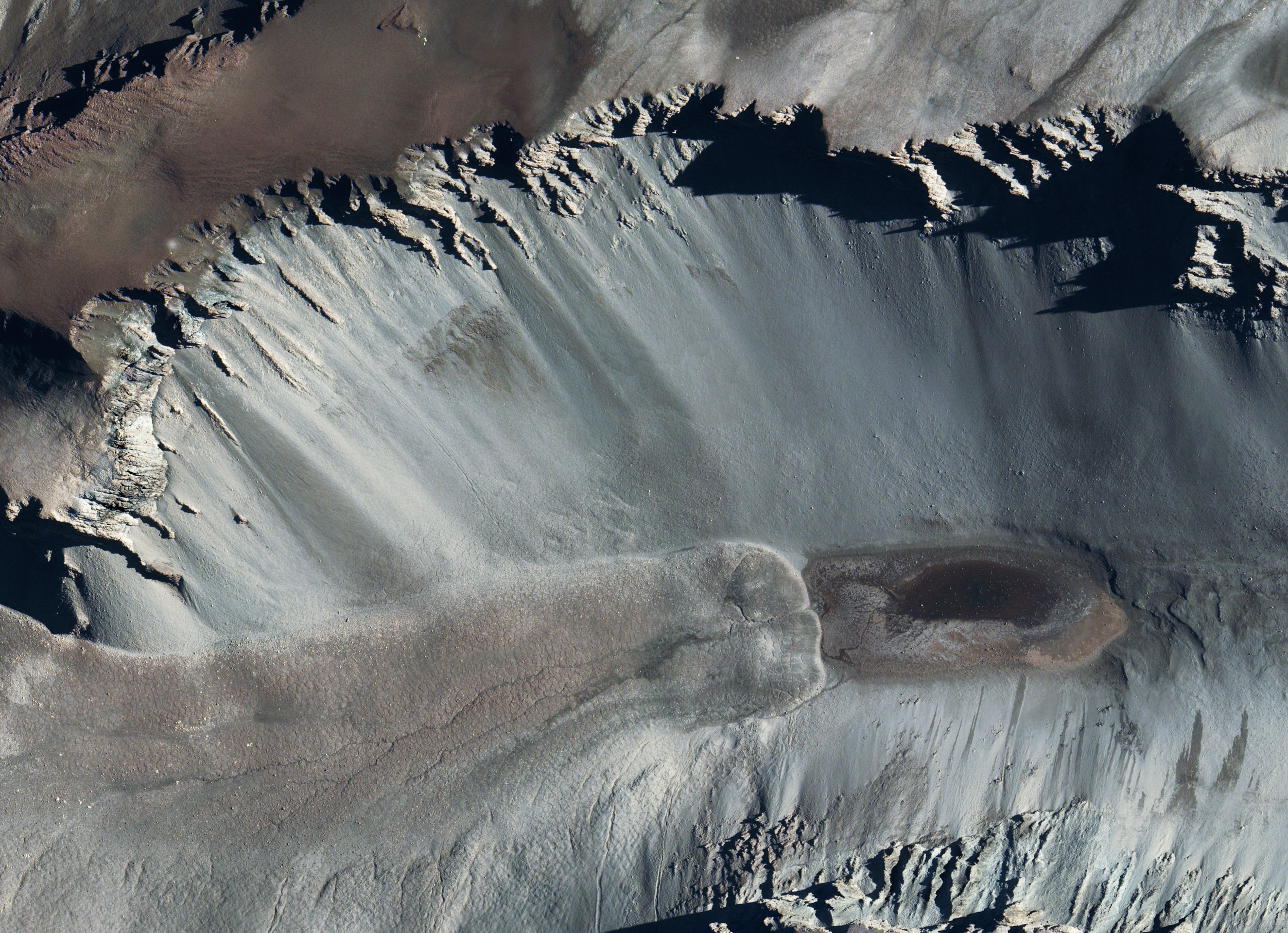 Satellite photo of Don Juan Pond